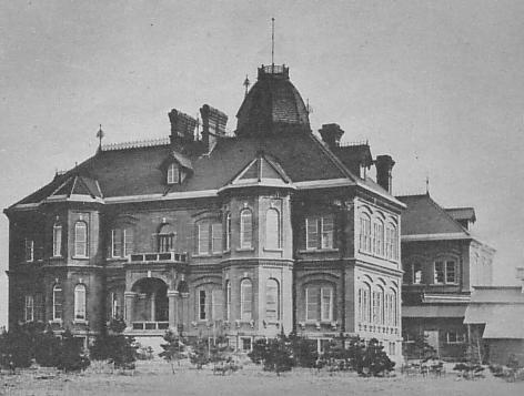 Hokkaido Government Office Building in Meiji era